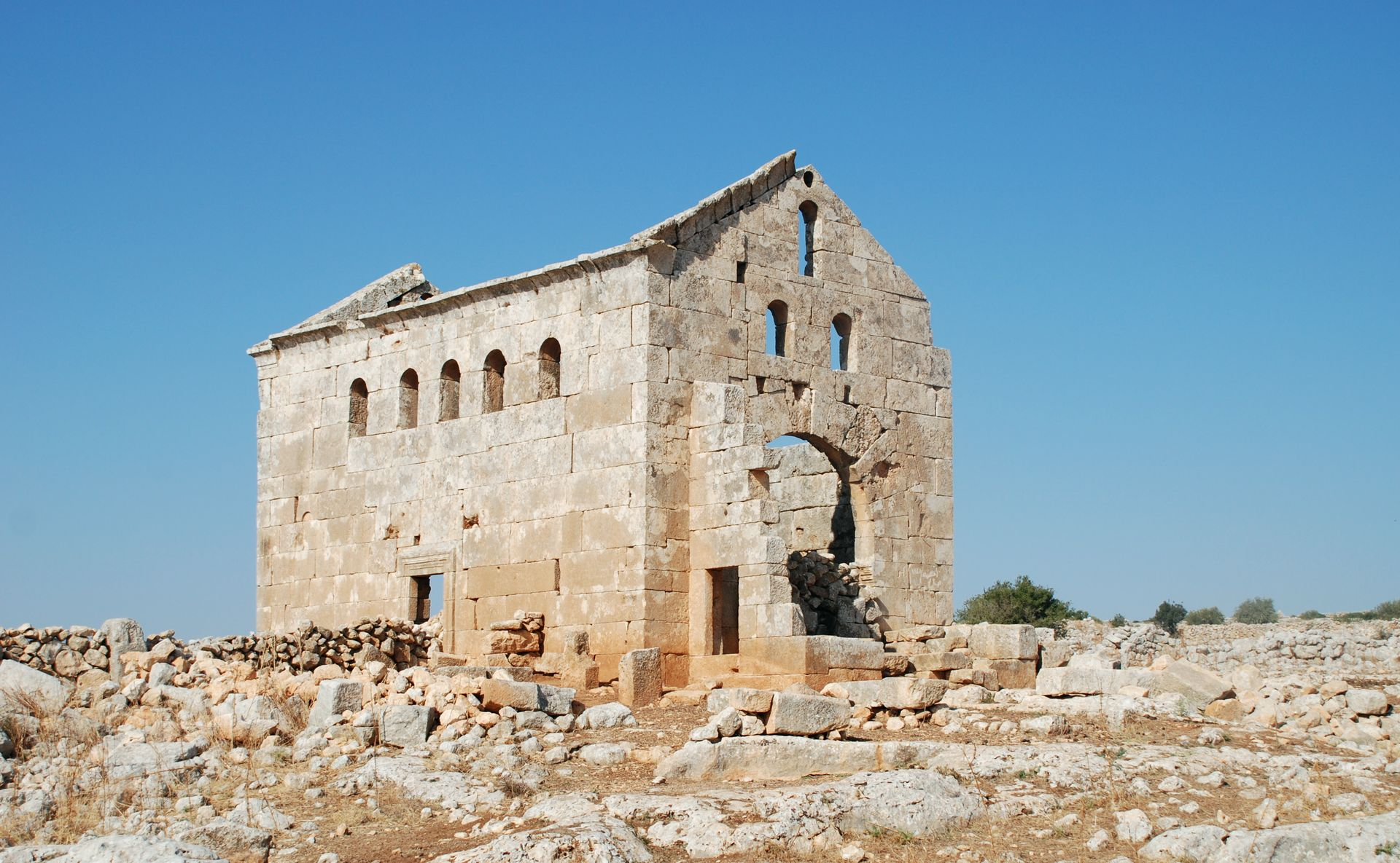 Sitt er-Rum, dead city in Syria. Church from southeast